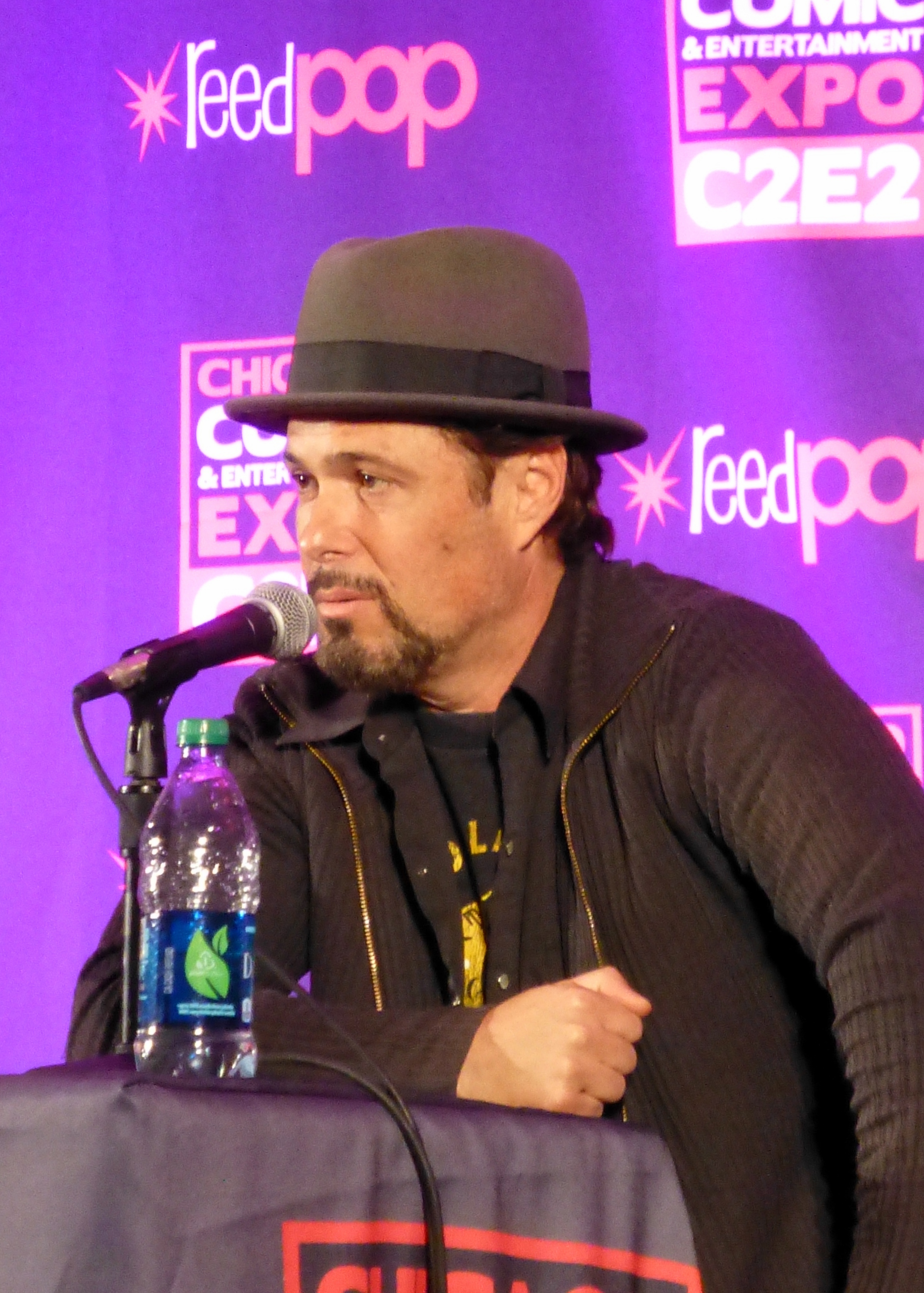 Actor Carlos Bernard at the "24" panel at C2E2 2014